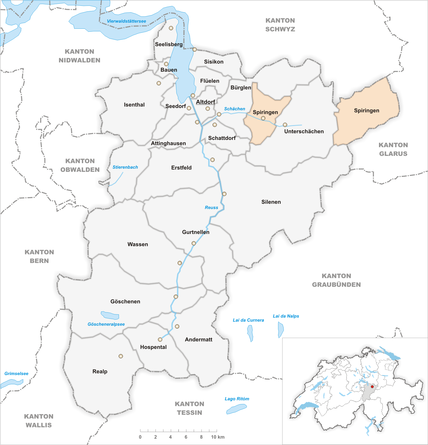 Municipality Spiringen